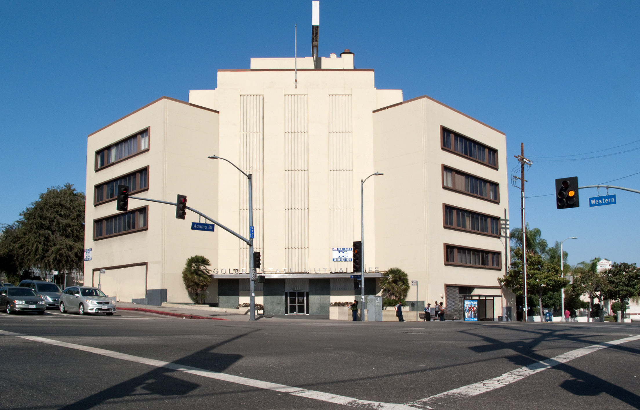 Golden State Mutual Life Insurance Building, 1999 W. Adams (at Western Ave.), in the West Adams neighborhood of Los Angeles, California. It was designed by architect Paul R. Williams.